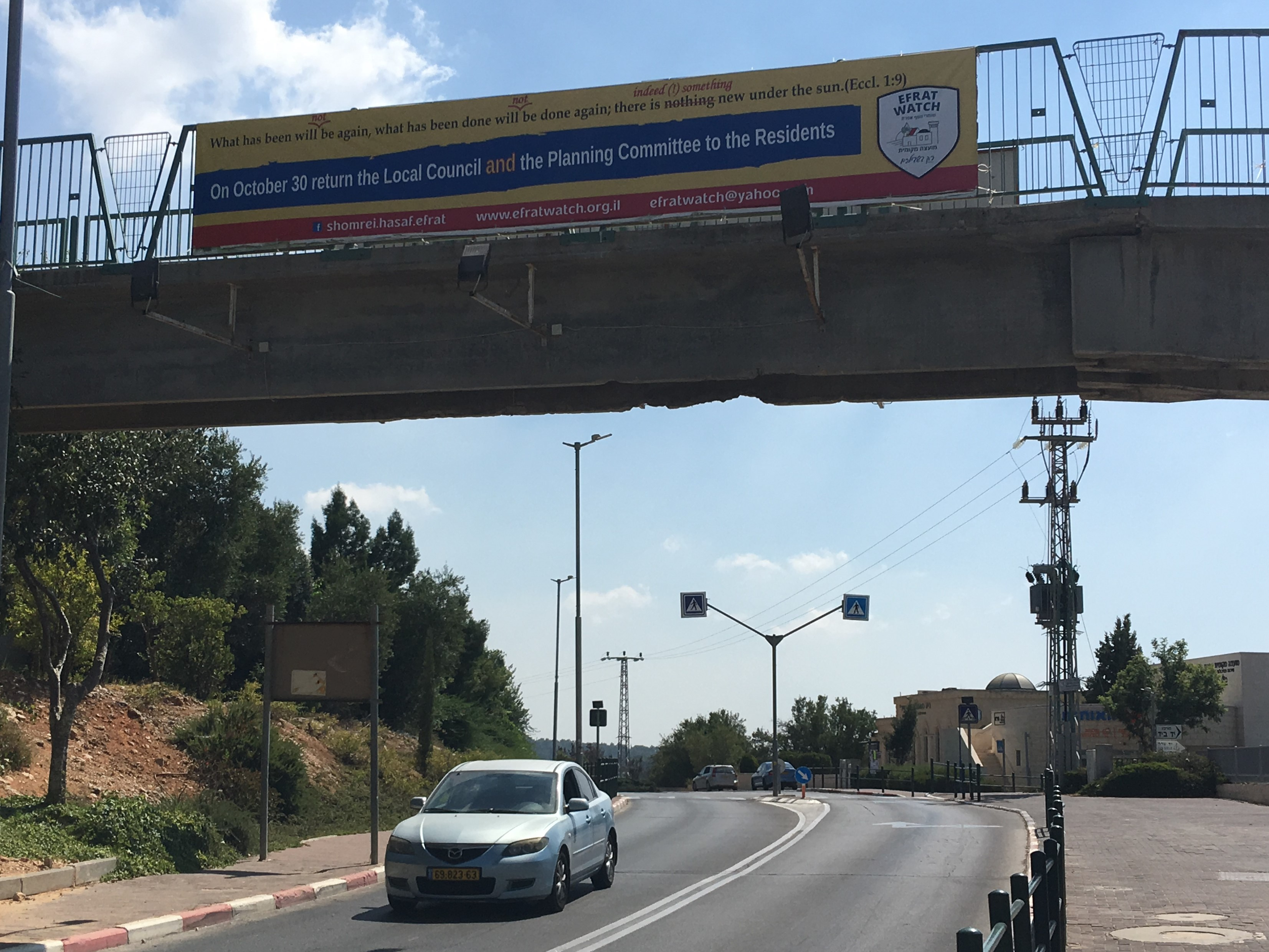 Election poster for the "Efrat Watch" party in the 2018 municipal elections